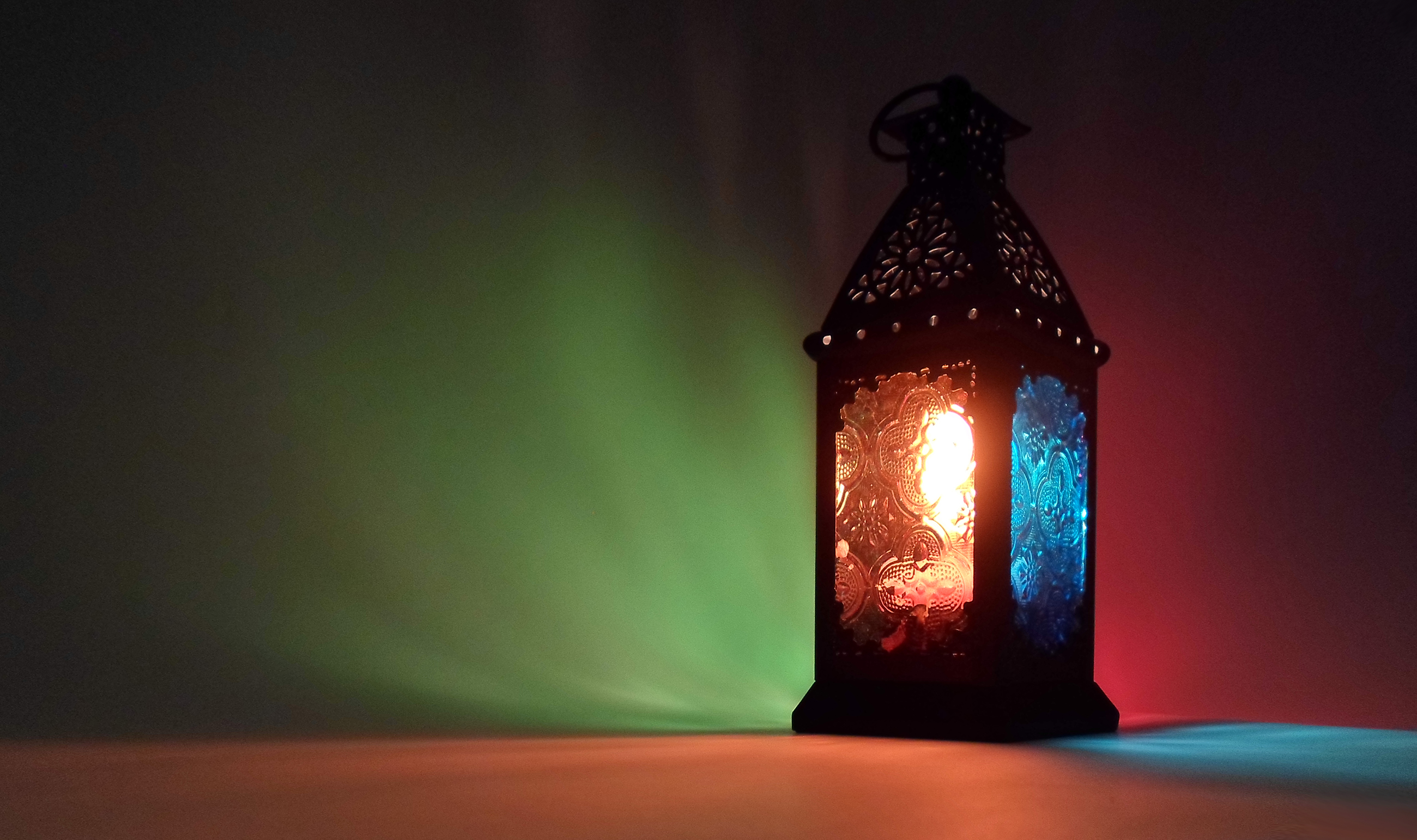 Old Fanous Ramadan, also known as Ramadan lantern is a famous Egyptian folklore associated with Ramadan.